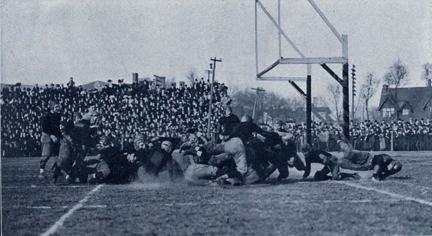 Photograph of football game between Michigan and Minnesota, November 20, 1909